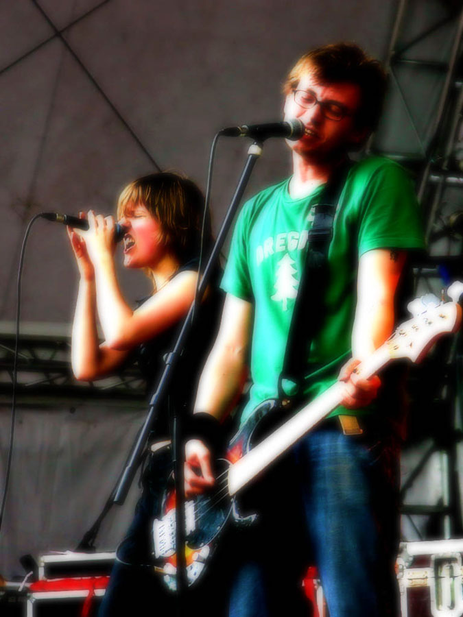 Spillsbury live at Mainz